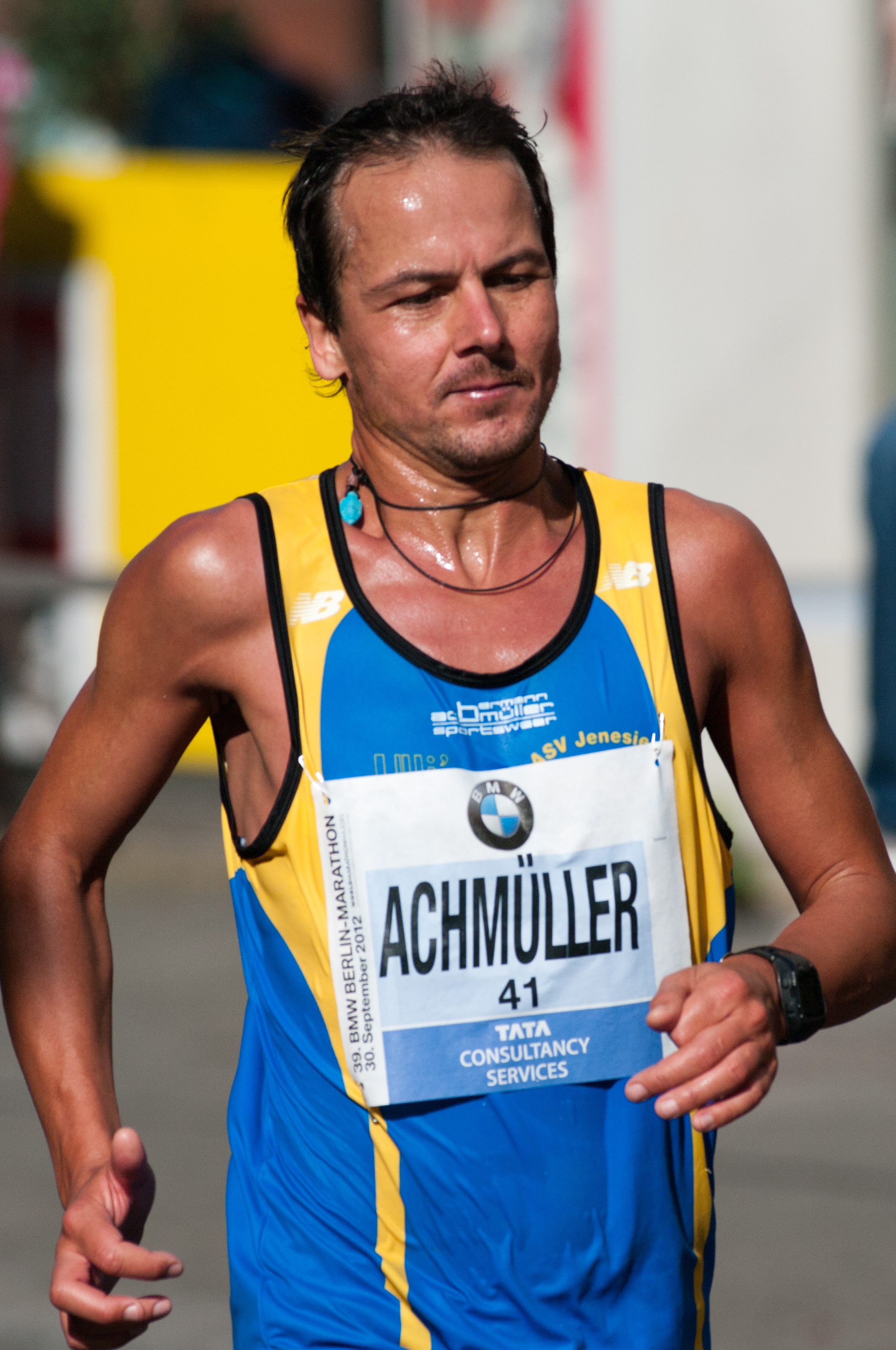 Elite runners at the 2012 Berlin Marathon. Here at Bülowstraße, between Kilometers 36 and 37.